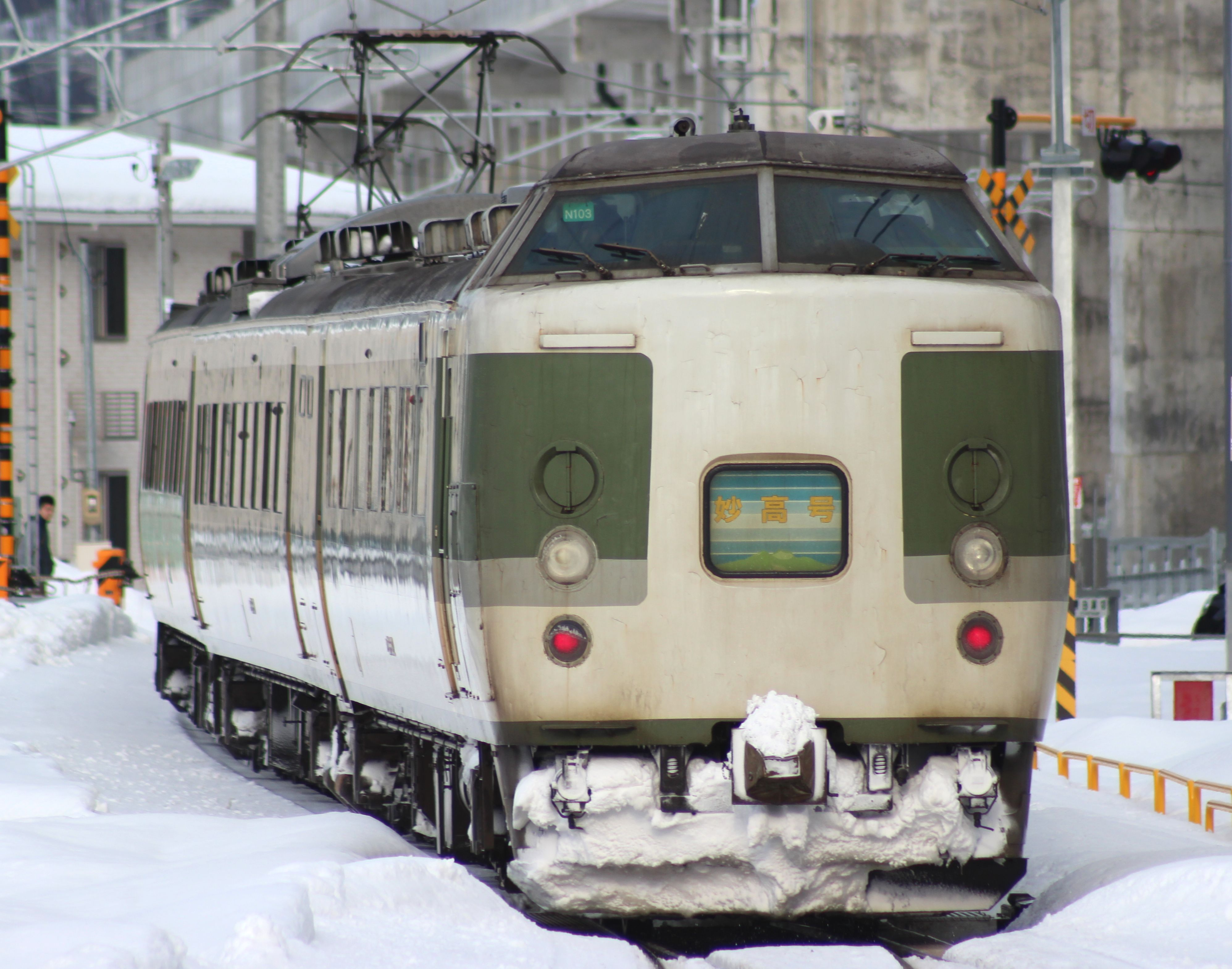 JR East 189 series 6-car set N103 on a Myoko rapid service